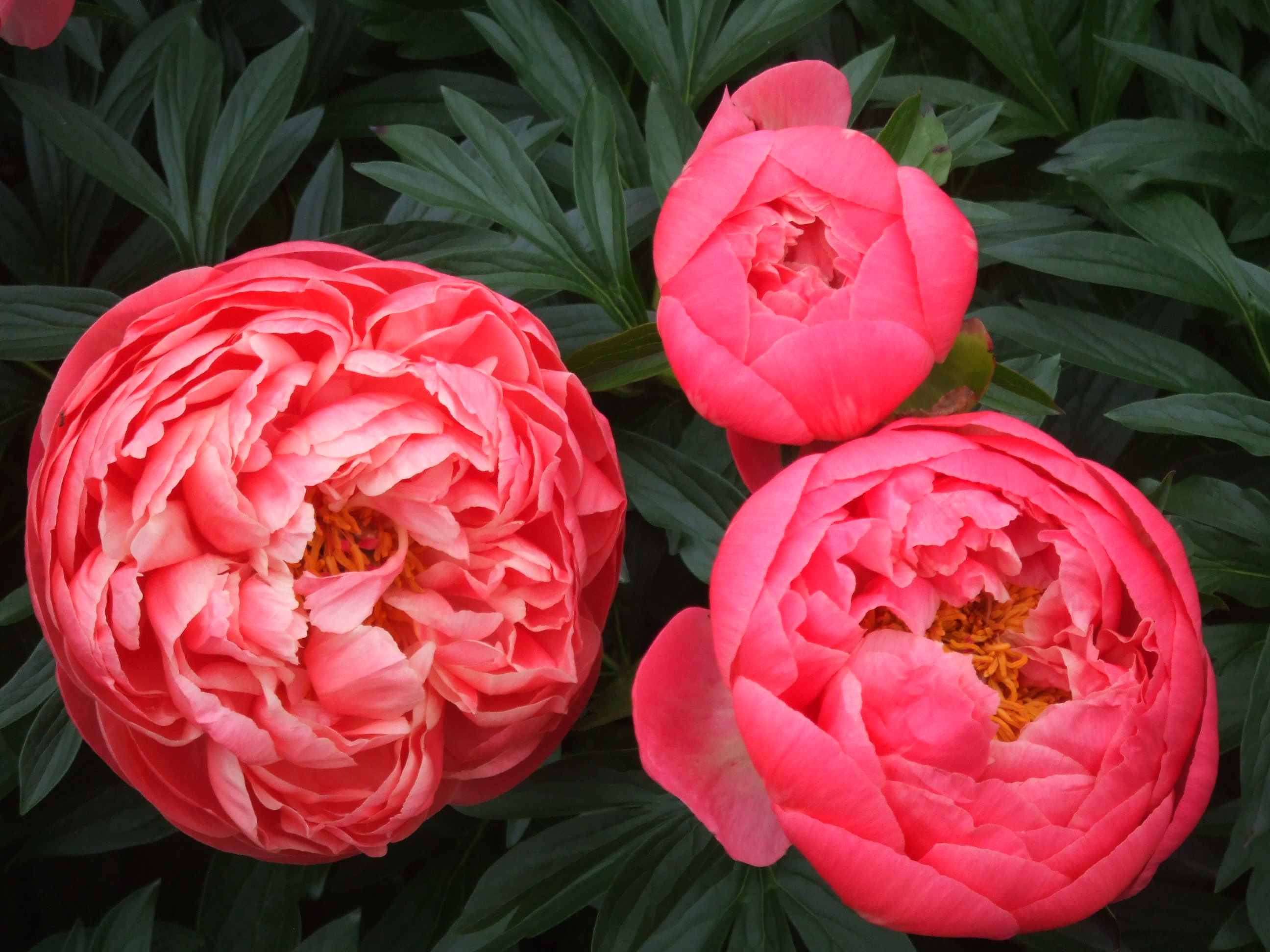 Pfingstrosen (Paeonia Herbaceous Hybrid Group) 'Coral Charm' im Palmengarten in Frankfurt am Main